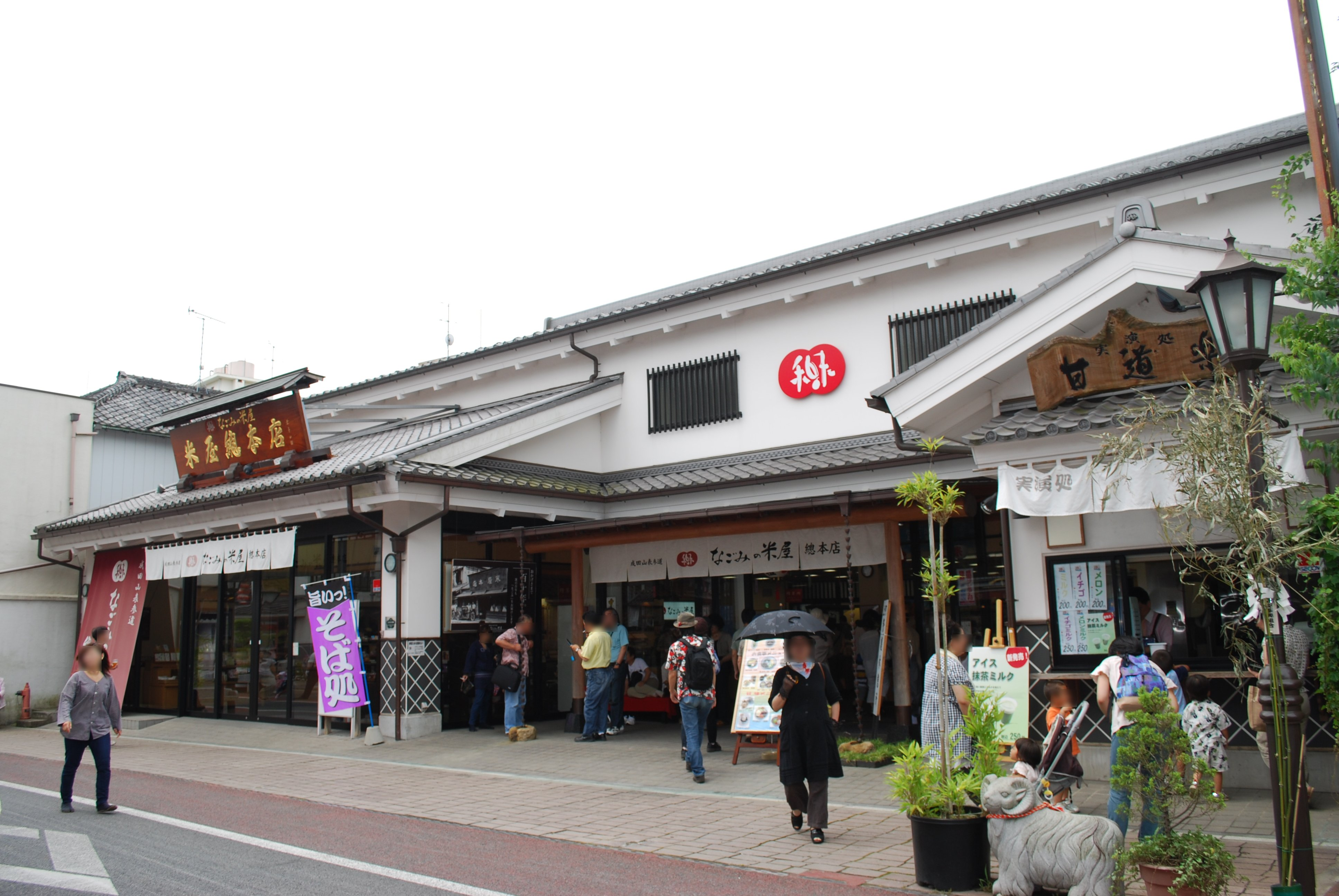 Yoneya-sohonten,Sweetened and jellied bean paste,Narita-ciy,Japan